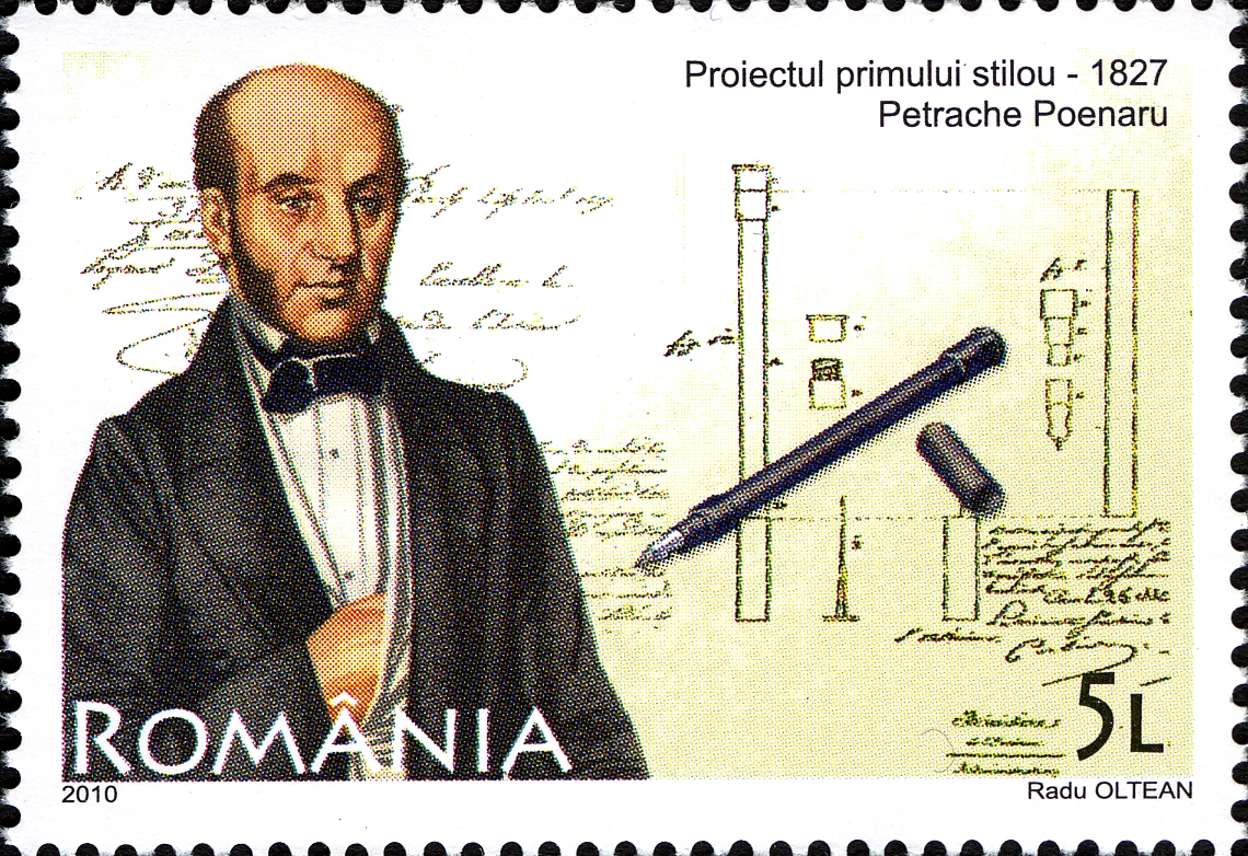 Stamps of Romania, 2010